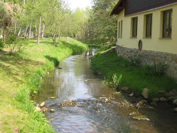 Stream Zahna (Elbe-tributary) at watermill „Külsoer Mühle“ nearby Dietrichsdorf. The municipality Dietrichsdorf, district Wittenberg, state Saxony-Anhalt, Germany, is situated in the Nature park Fläming.